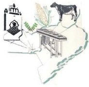 Coat of arms of La Independencia, Chiapas